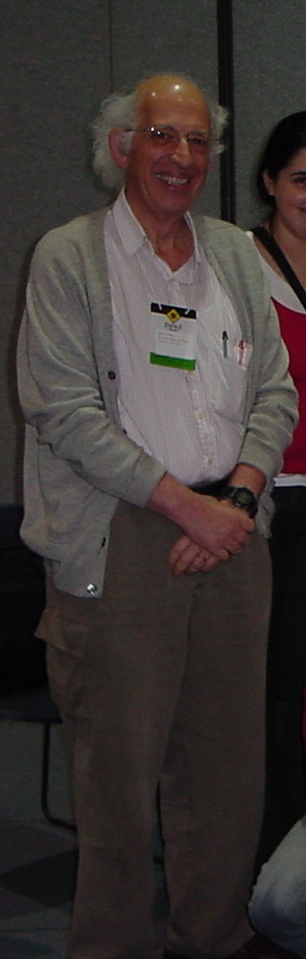 Imre Simon, PhD at FISL V (2005)